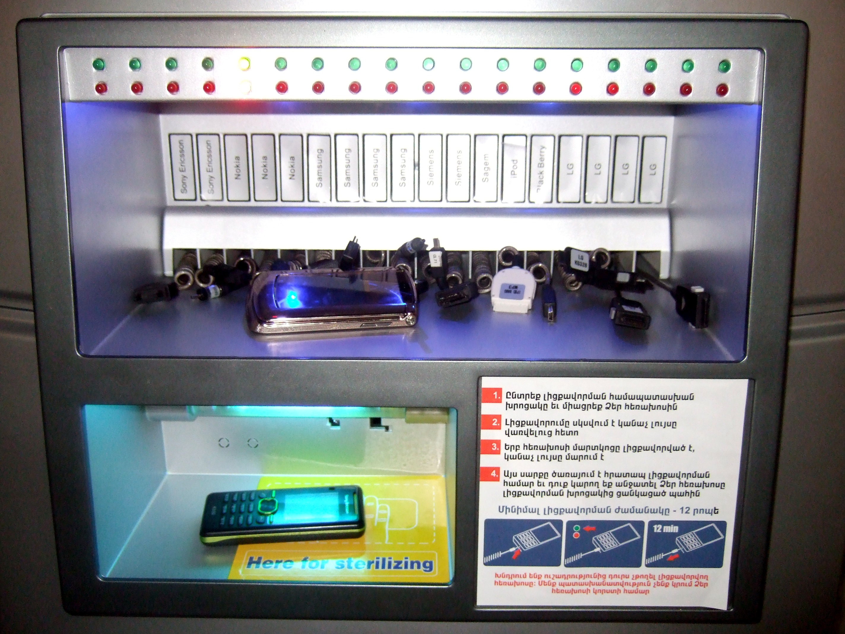 A public cellphone charger at Kino Moskva (Moscow Cinema) in Yerevan